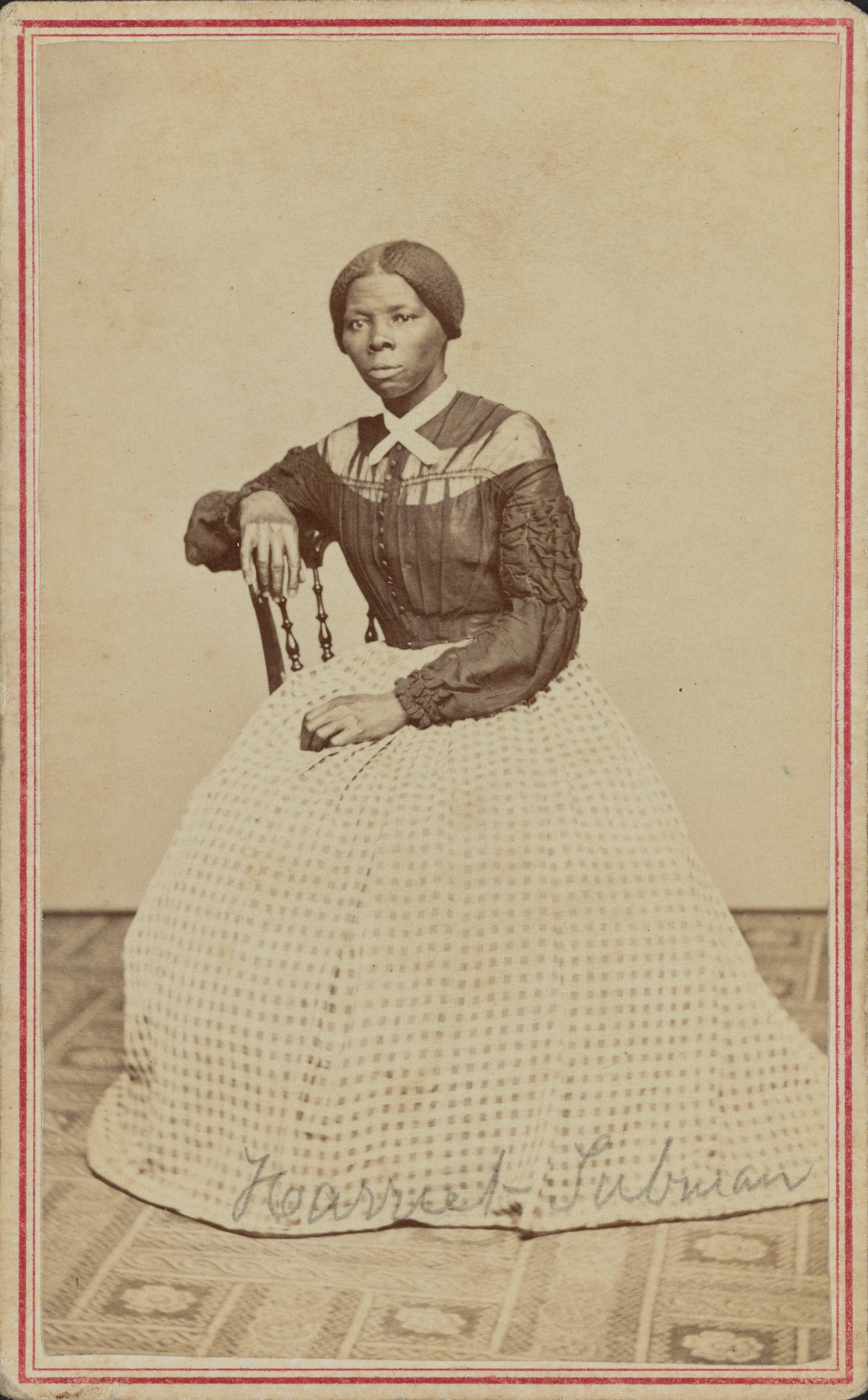 A carte-de-visite of a young Harriet Tubman seated in an interior room. Photographed by Benjamin F. Powelson in 1868-69. Originally owned by Emily Howland, a Quaker schoolteacher who worked in Arlington, VA. Jointly purchased by the National Museum of African American History and Culture and the Library of Congress in 2017.